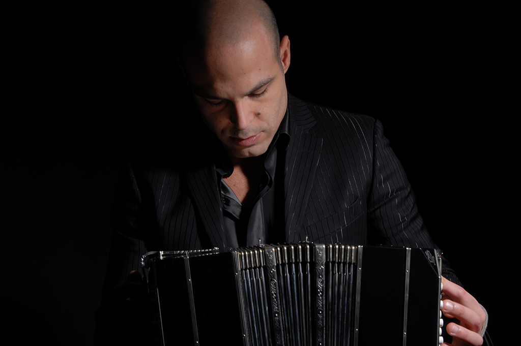 Fabio Furia, bandoneon. Concert.